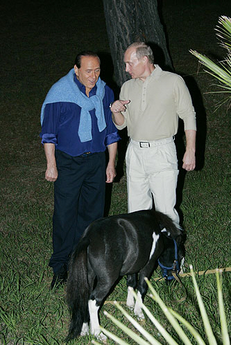 Russian president Vladimir Putin (right) with the Prime Minister of Italy, Silvio Berlusconi (left) in Bocharov Ruchei, Sochi.